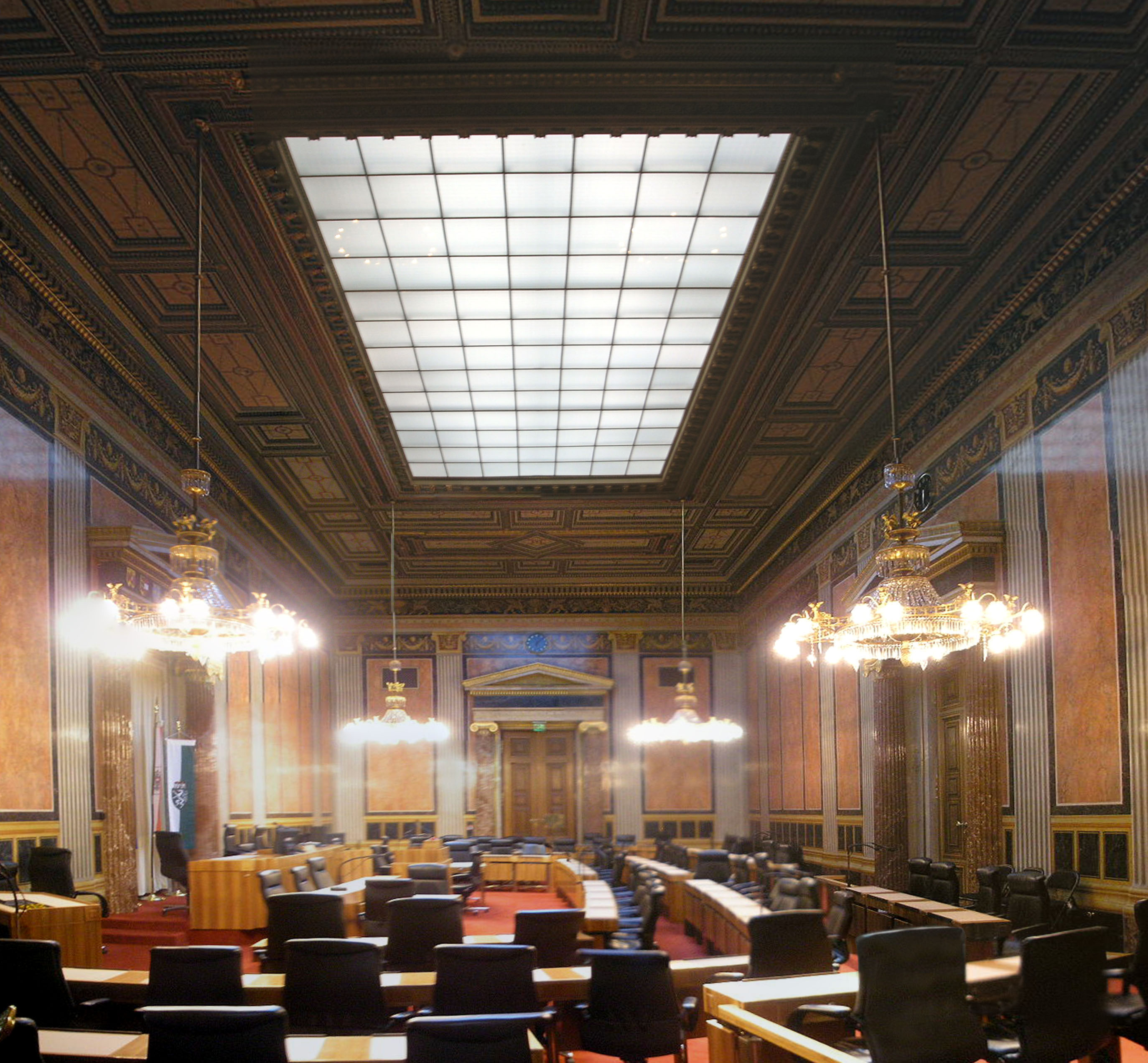 Debating Chamber of the Federal Council of Austria in the parliament building in Vienna.